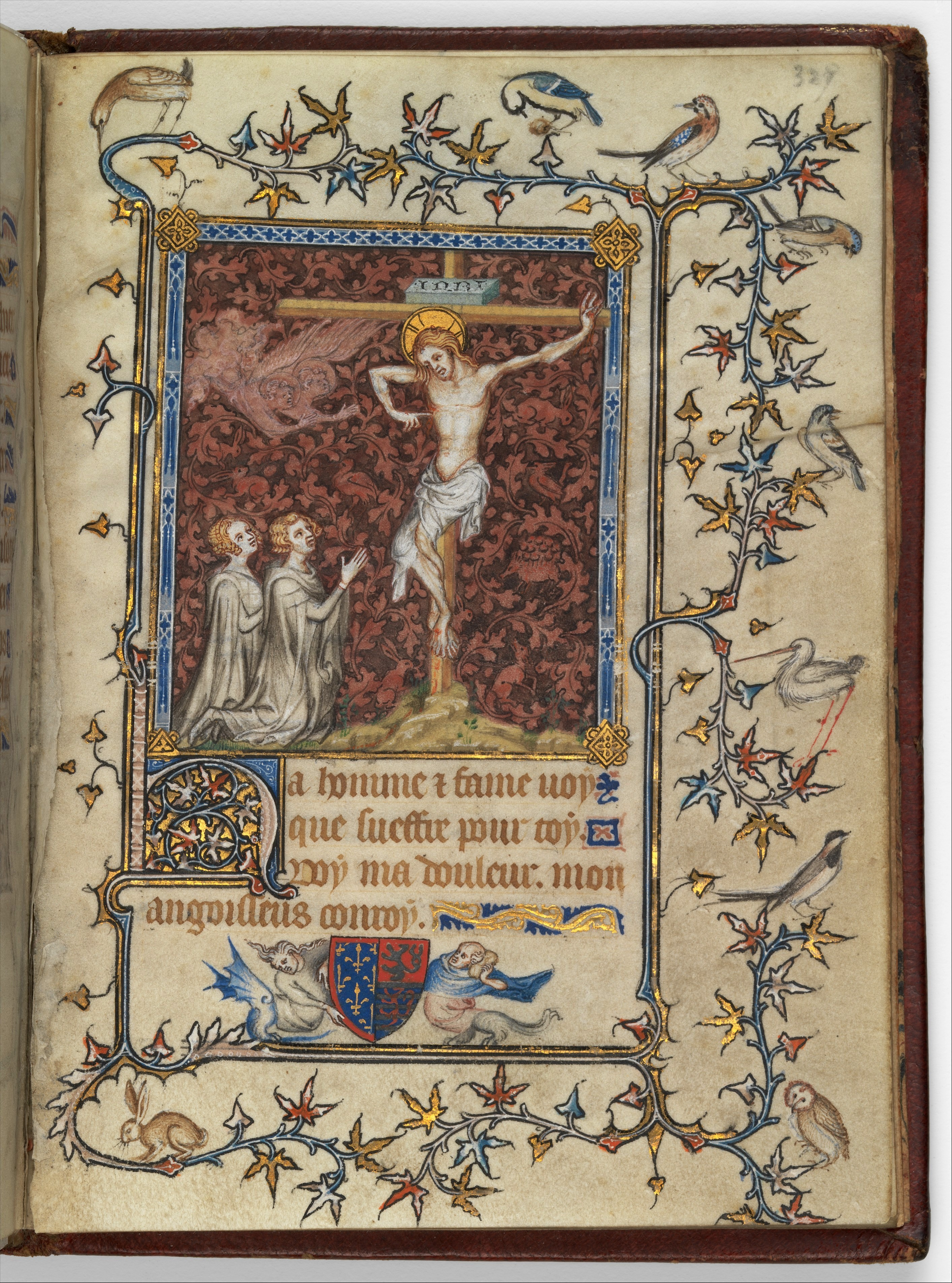 Jean Le Noir. Miniature from Psalter of Bonne of Luxemburg 1348-49 Metropolitan Museum, N-Y